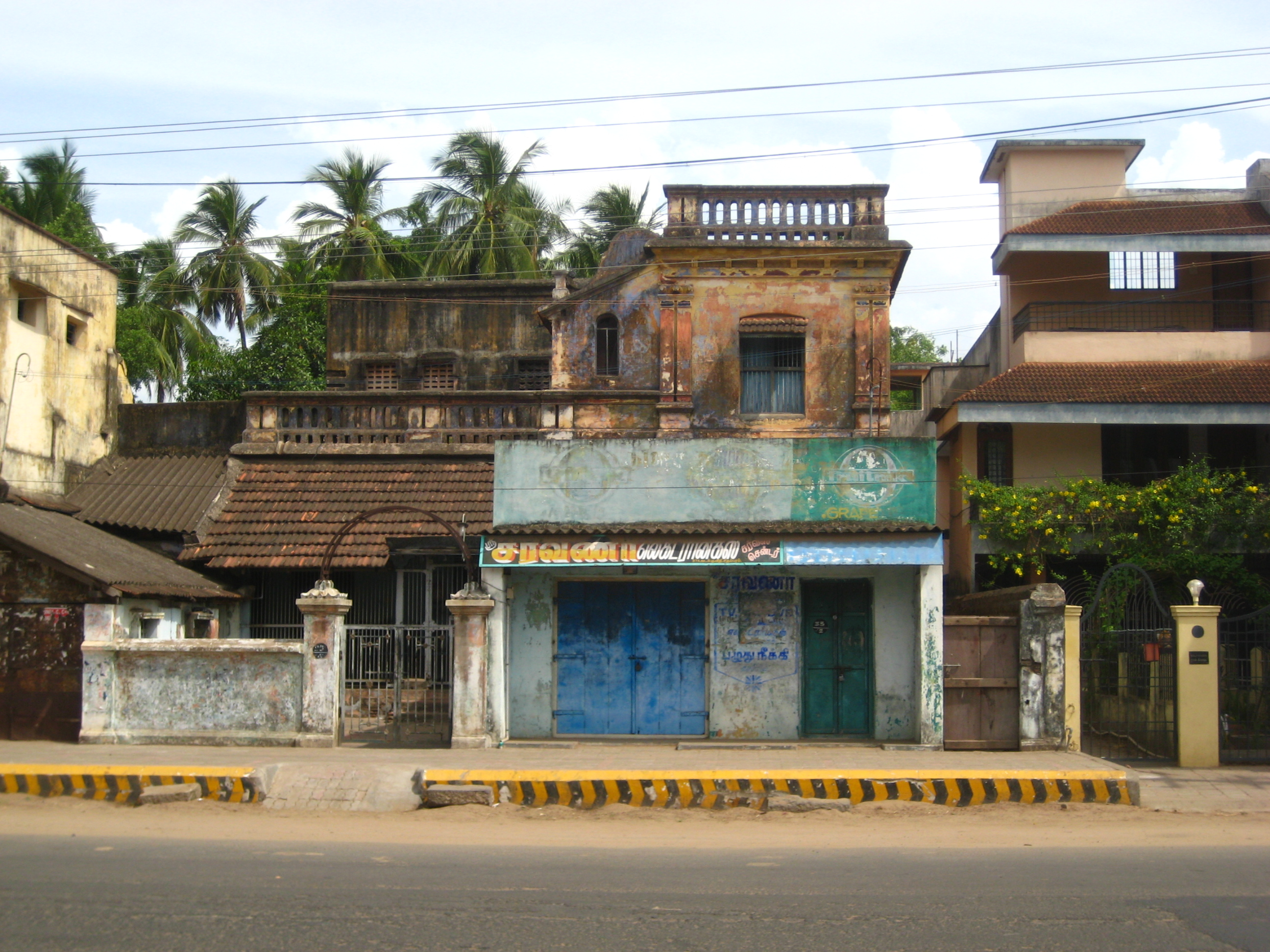 Residential houses in Chidambaram, Tamil Nadu, India.